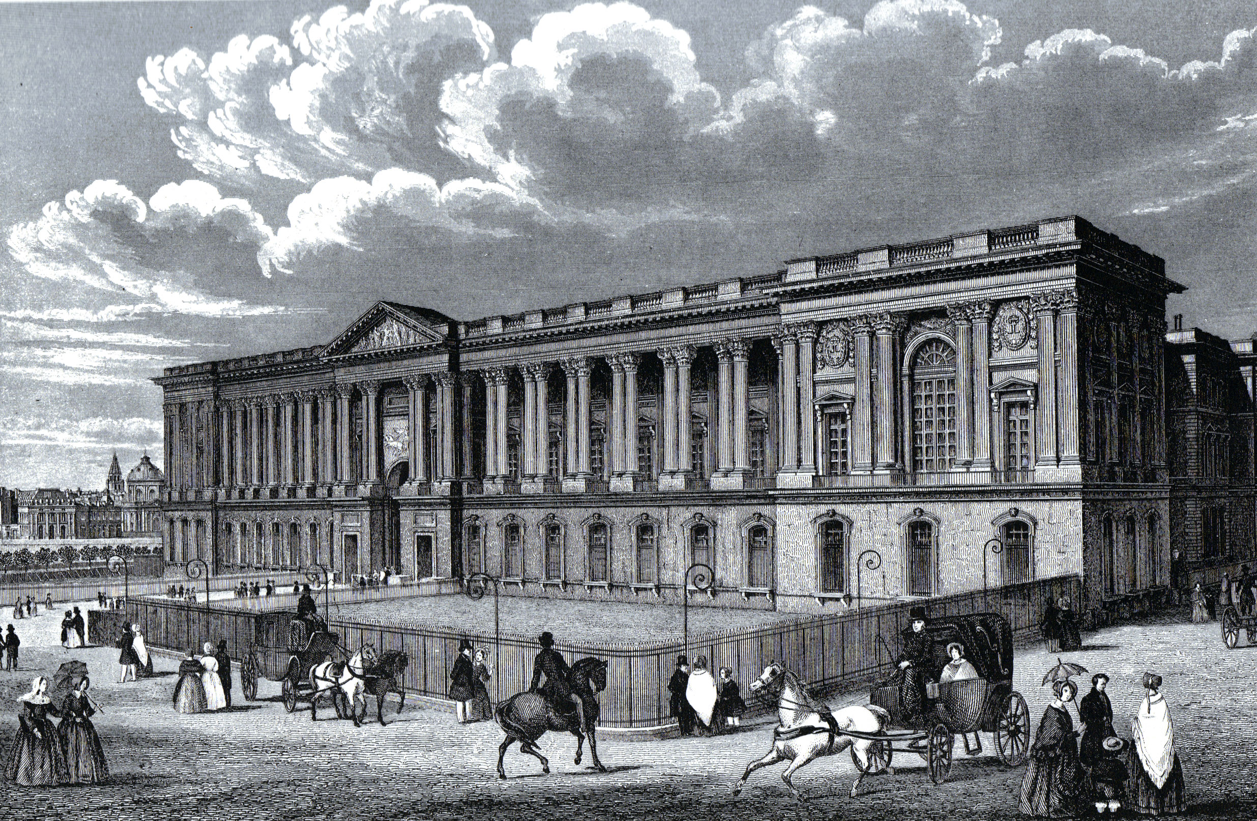 The Louvre around 1845. Engraving by Chamouin after a daguerrotype.